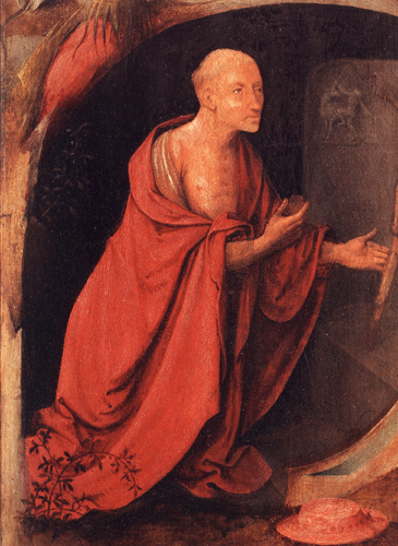 Job Triptych, right inner wing, detail (Saint Jerome).